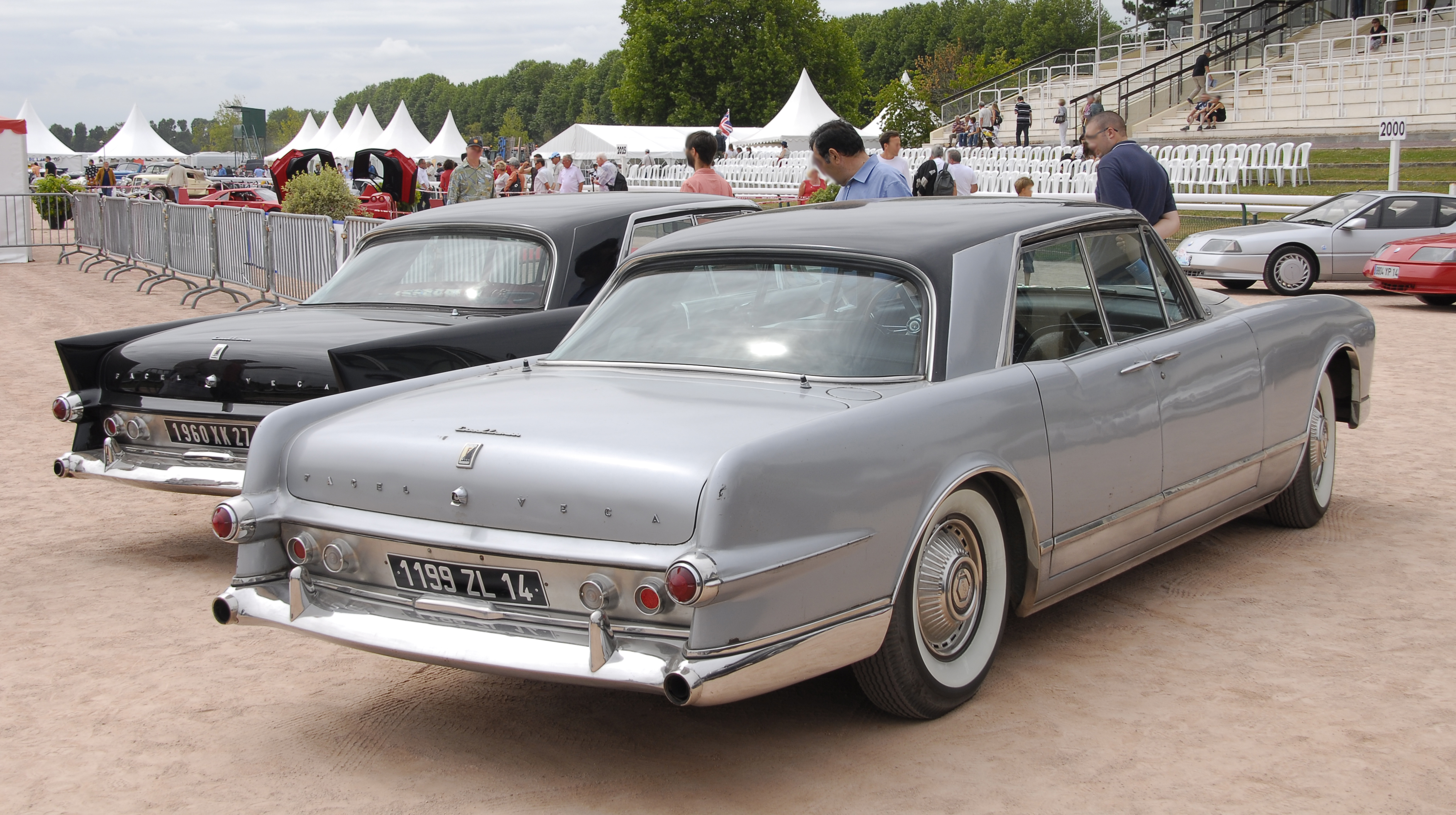 Facel Vega Excellence EX2, in front of earlier Excellence with more pronounced tailfins.